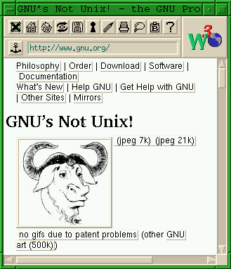 Arena - One of the only pictures on the internet, recovered from the Internet Archive Wayback machine.